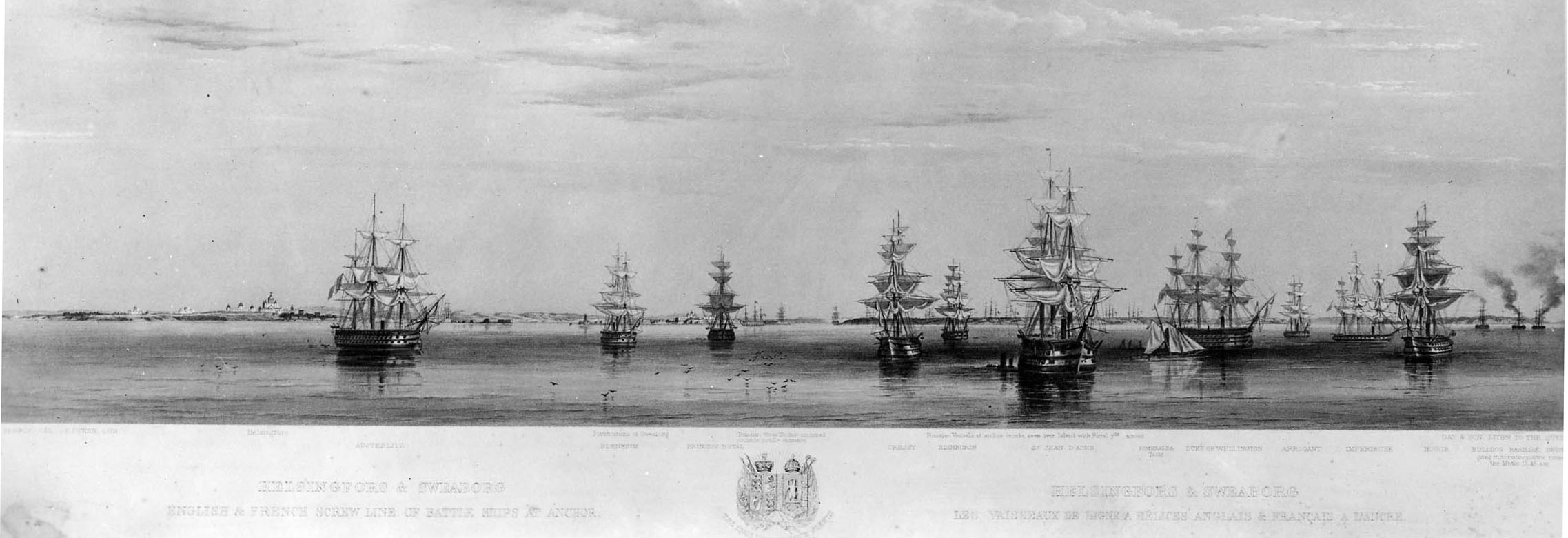 Helsingfors and Sweaborg. English & French screw line of battle ships at anchor. Escorts at Suomenlinna 1854, Crimean War. In 1854, at the outbreak of the Crimean War, Oswald Walters Brierly (1817–1894), marine painter and naval engineer, joined Captain Henry Keppel as artist–observer on the man-of-war HMS St John d’Acre in the allied Baltic fleet.